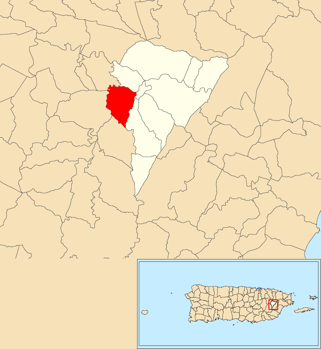 Lirios, Juncos, Puerto Rico locator map